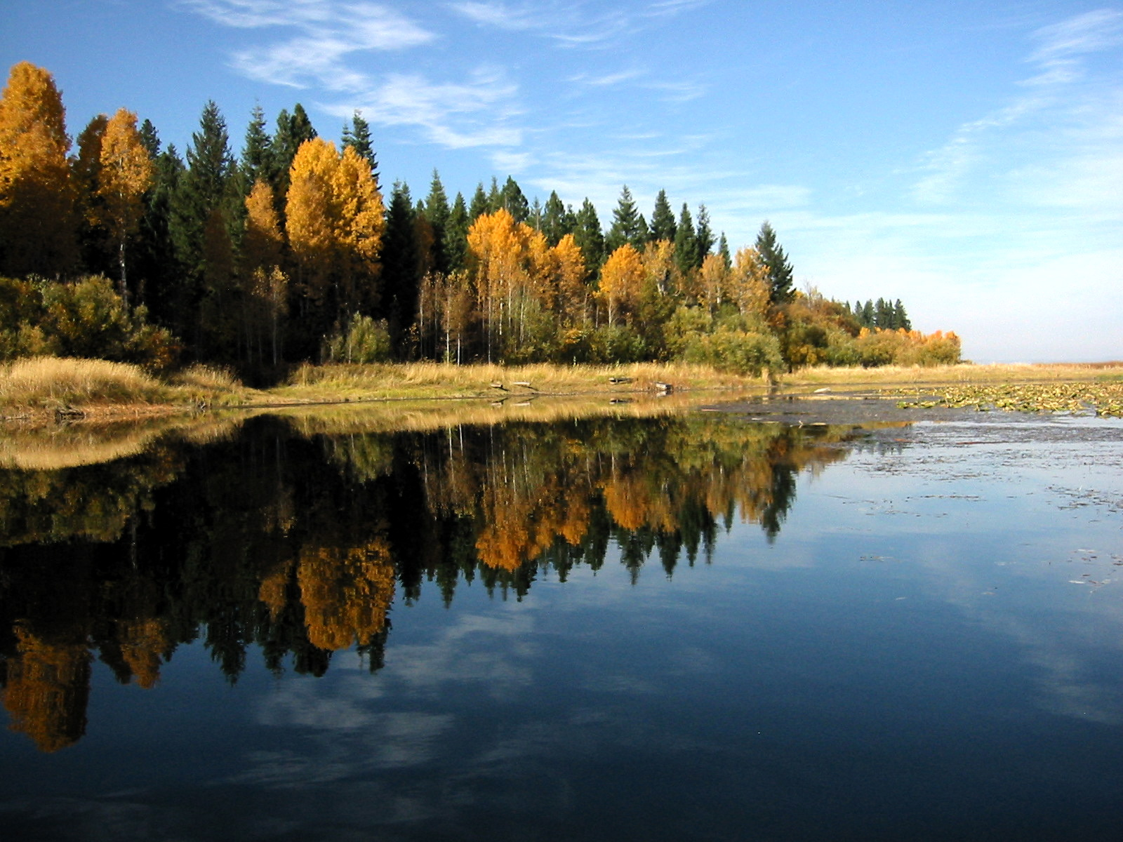 Upper Klamath Lake Canoe trail; Populus tremuloides, fall foliage; Pinus ponderosa subsp. ponderosa; and Abies concolor